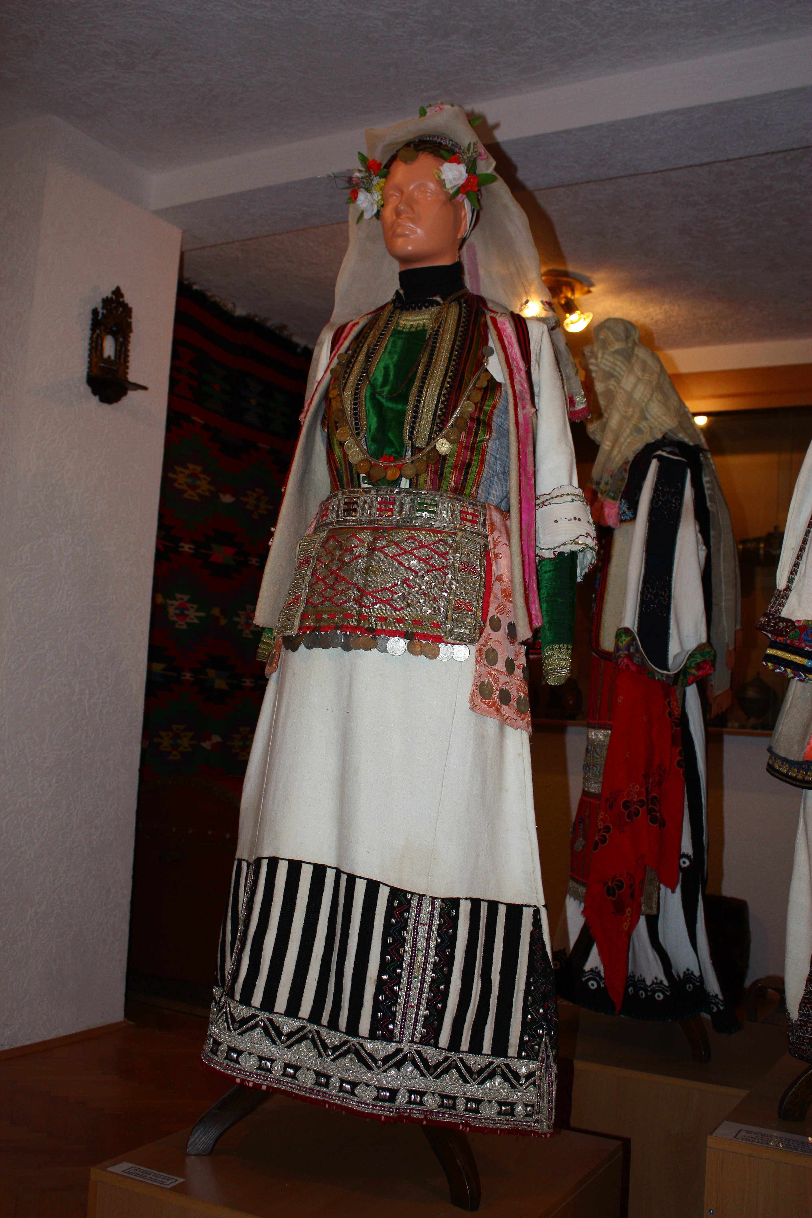 Ethnological Museum in Podmočani, Macedonia